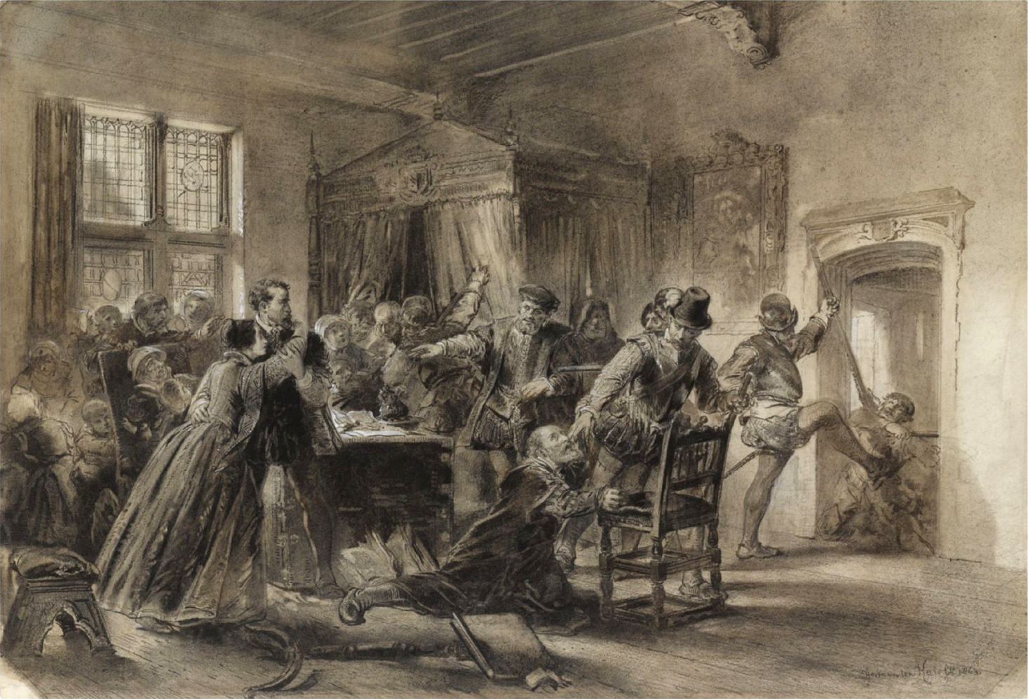 The pillage 417 x 603 mm. signed and dated 1869 l.r. black chalk, pen and grey wash heightened with white on paper